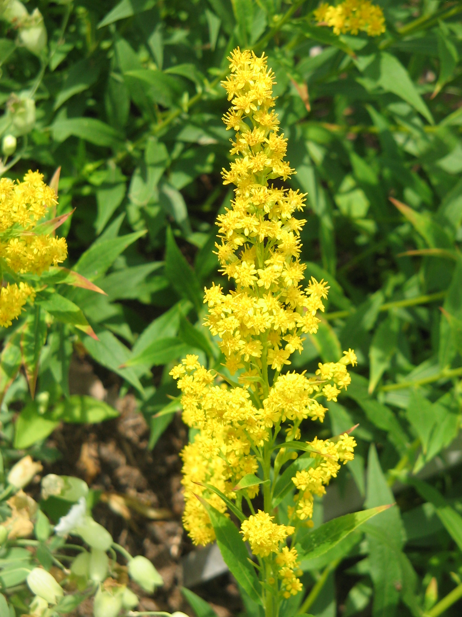 Solidago caesia close-up